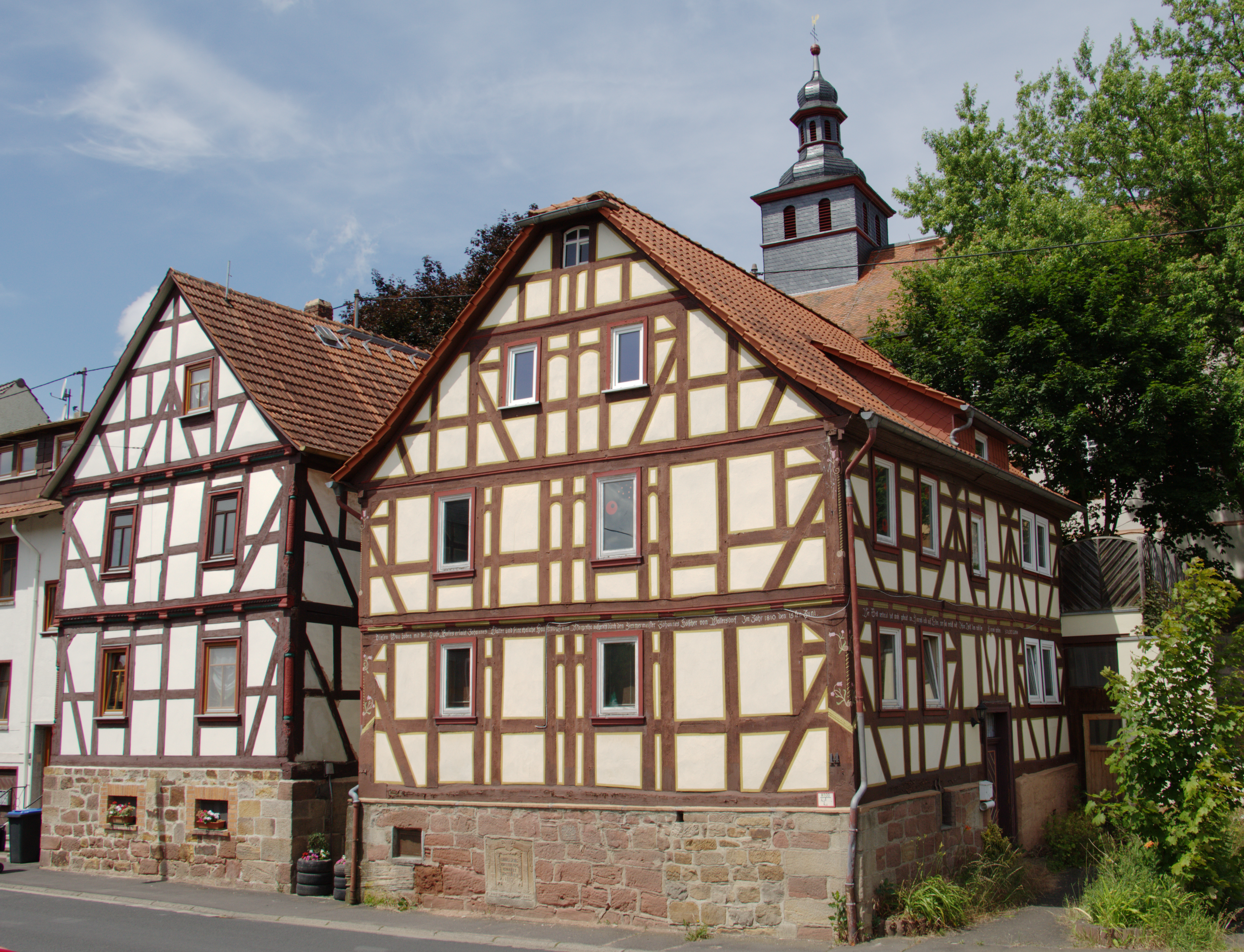 Half-timbered building in Grebenau Hersfelder Tor 12-14 / Hesse / Germany